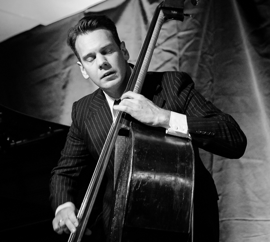 Trygve Waldemar Fiske with Hanna Paulsberg's Dexter Gordon tribute concert at Argus. The concert was part of Kongsberg Jazzfestival and took place on 04. July 2018 in Kongsberg. Lineup: Hanna Paulsberg (saxophone) Jørn Øien (piano) Trygve Waldemar Fiske (double bass) Hans Hulbækmo (drums)